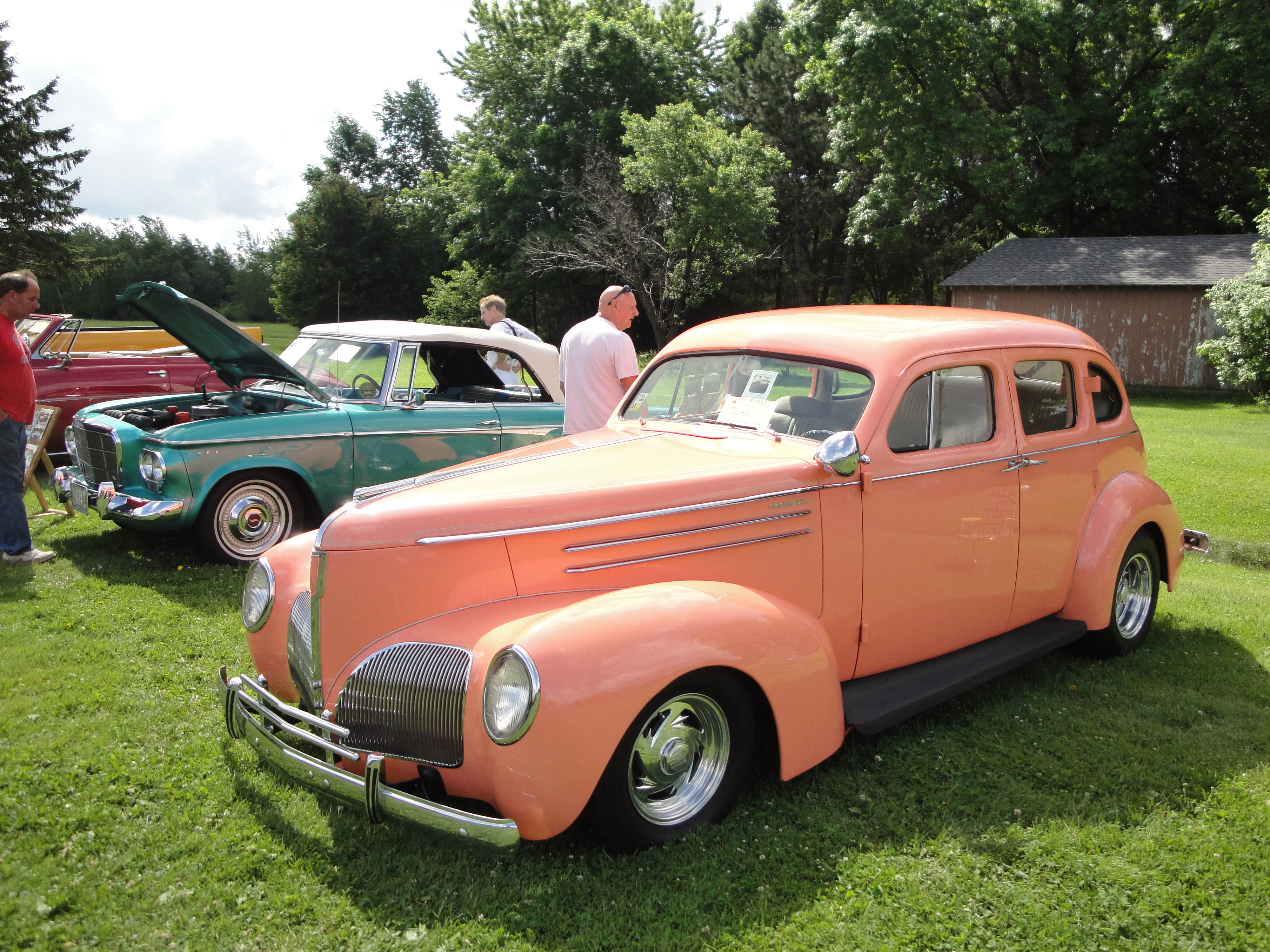 A customized 1939 Studebaker President sedan at the 2012 Memorial Day Car Show Hosted by the North Star Chapter of the Studebaker Drivers Club